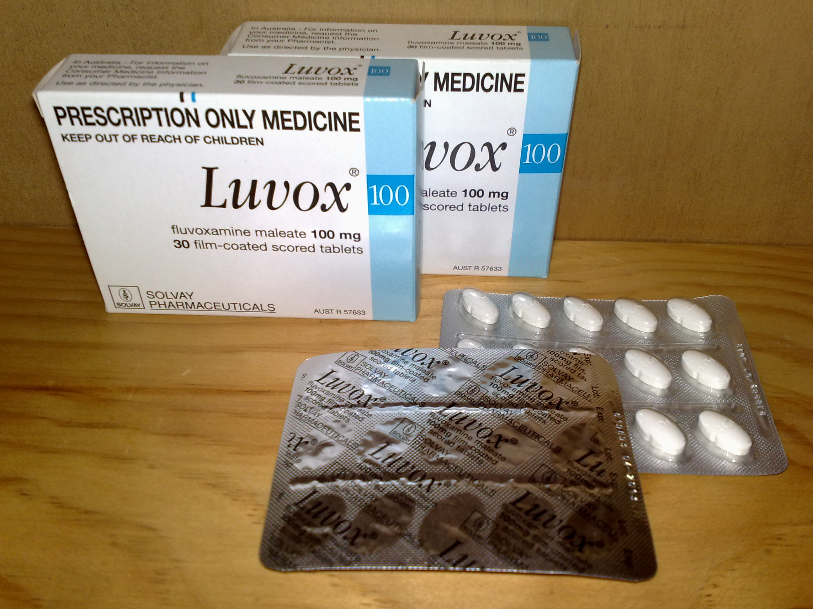 Luvox